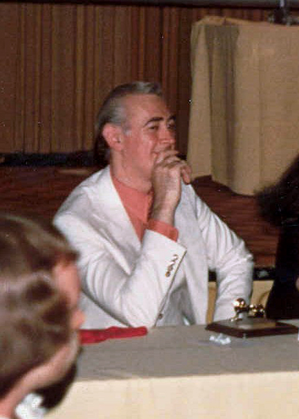 Gil Kane, extracted by cropping an image where TBG founder/editor Alan Light receives an Inkpot Award at the 1976 San Diego Comic Convention. Cartoonist Gil Kane was visible in white suit.